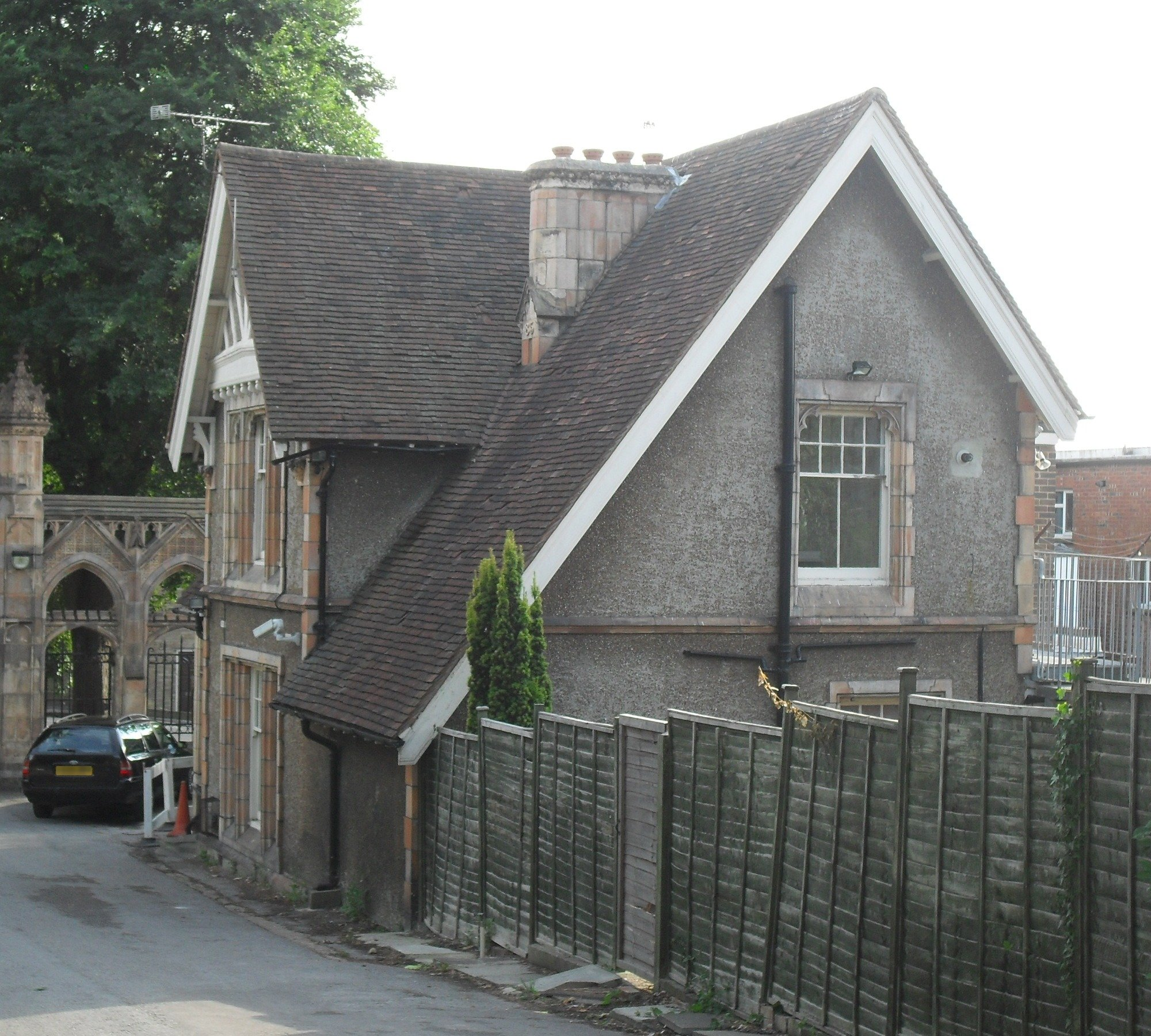 Entrance lodge at Brighton and Preston Cemetery, Hartington Road, Brighton, City of Brighton and Hove, East Sussex. Built in 1885 next to the arched entrance to the cemetery. Listed at Grade II by English Heritage (IoE Code 481974)